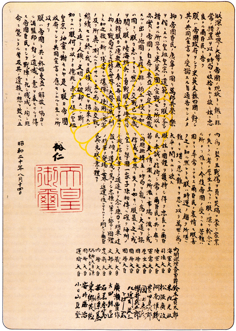 Imperial rescript from Japanese Emporer Hirohito ordering Japan's capitulation and end to World War II. Written on 14 August and announced on 15 August, 1945.